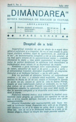 First page of "Dimândarea" magazine, July 1937.